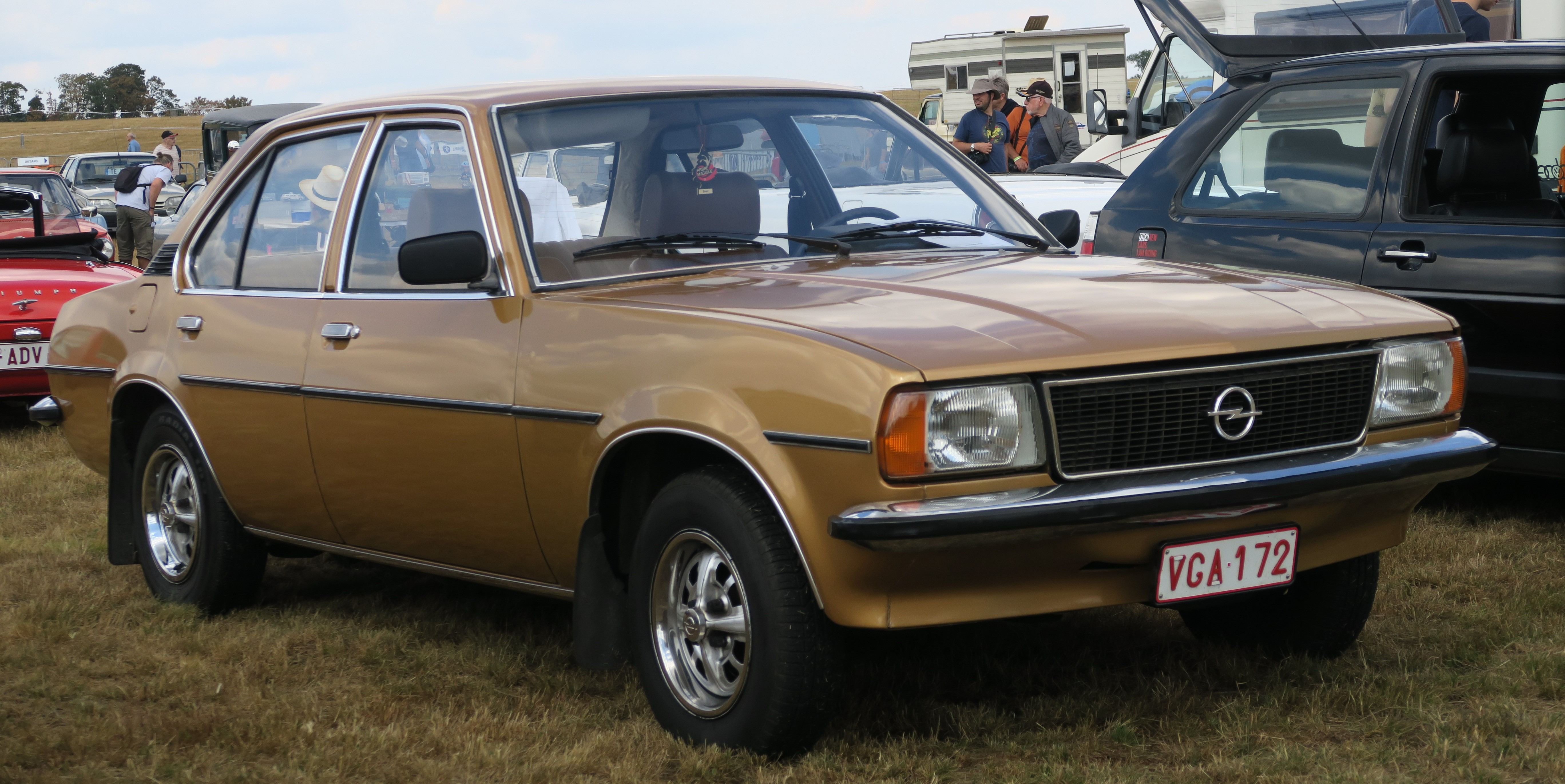 Opel Ascona 1.2